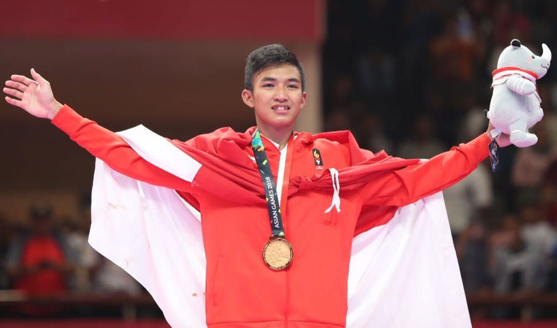 Rifki Ardiansyah at the 2018 Asian Games, after winning a gold medal in men's 60kg kumite